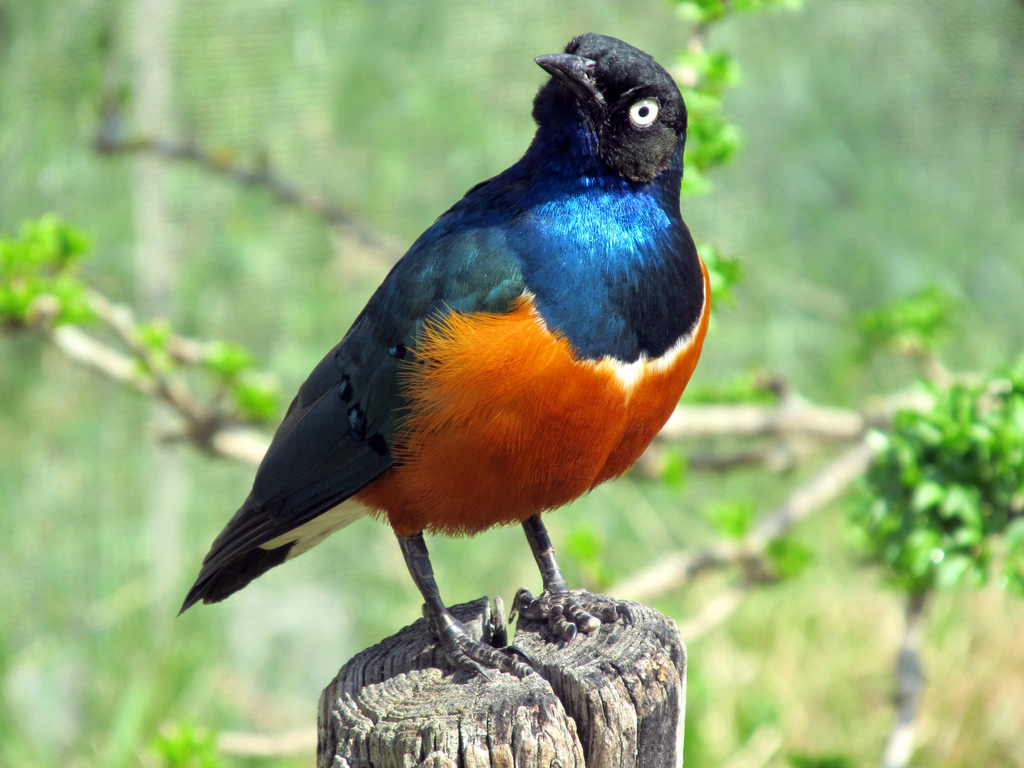 A Superb Starling at Kansas City Zoo, Missouri, USA.